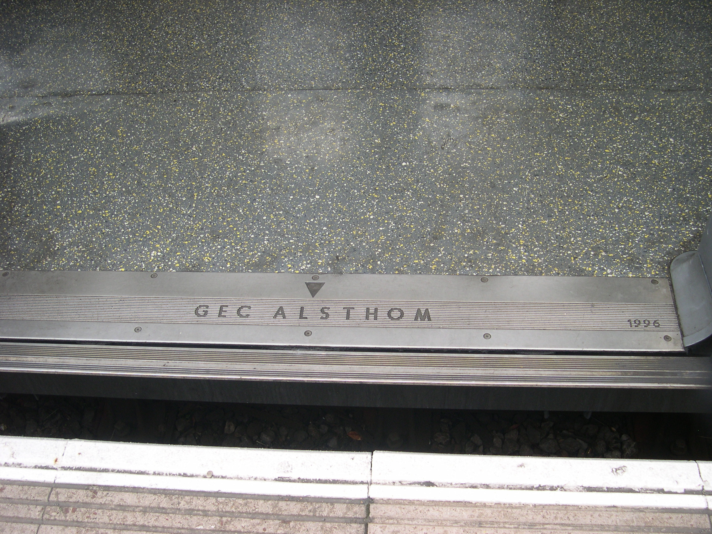 Manufacturer's plate on a 1995 tube stock door way